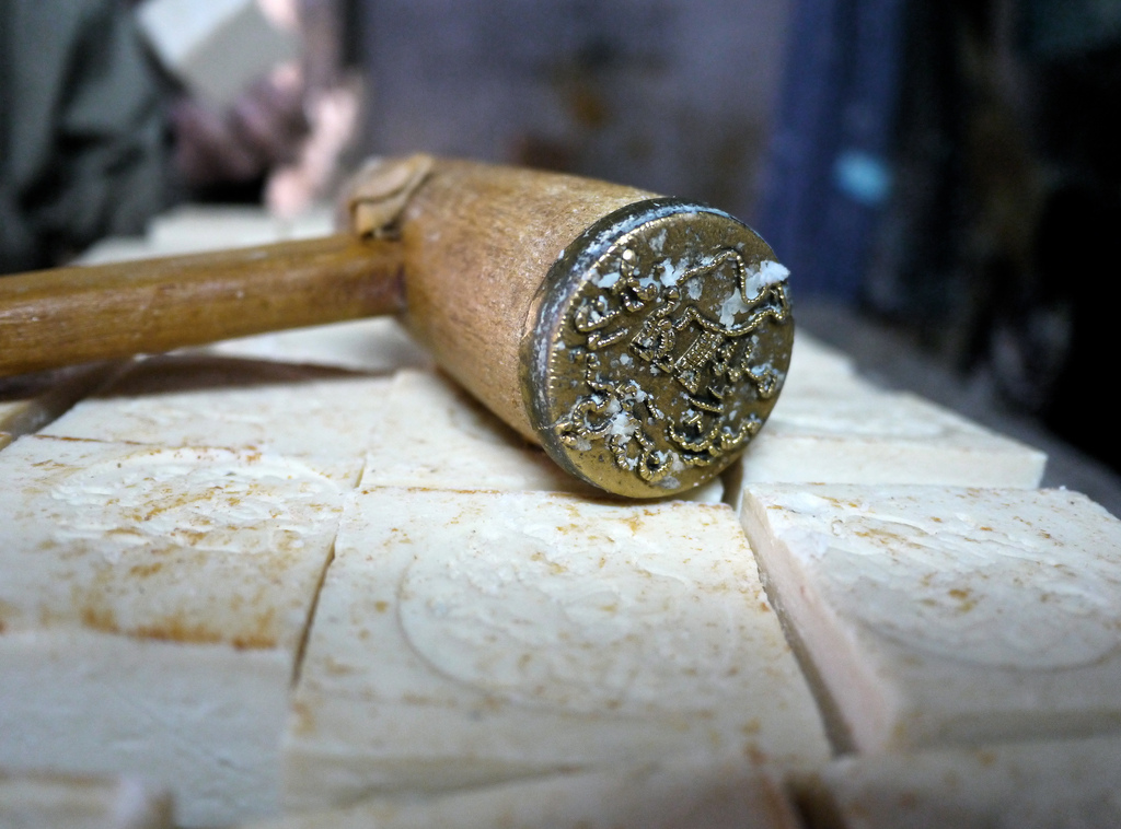 Soap and soap seal from Nablus